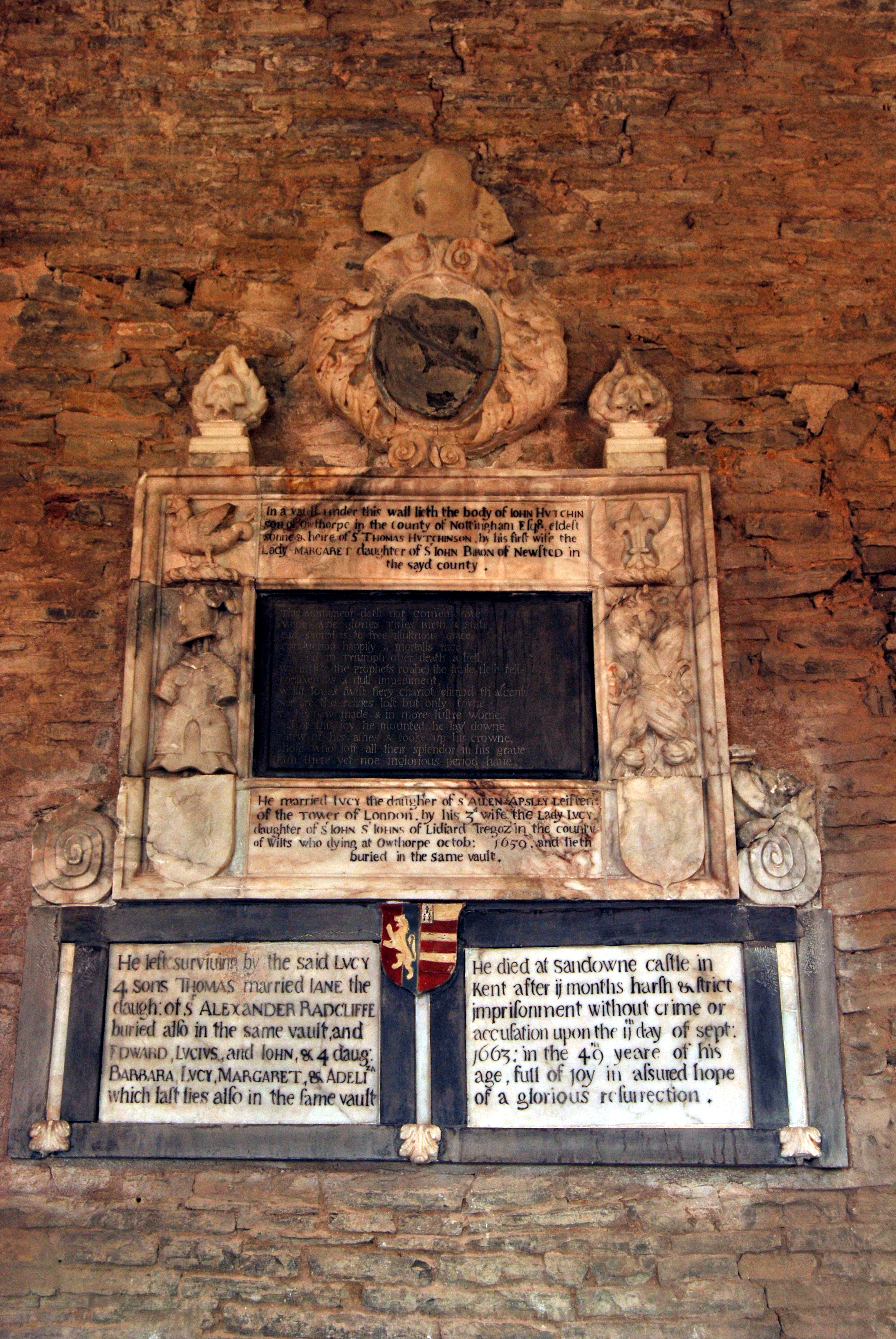 St Margaret's, Owthorpe. Commemorative Plaque to Sir John Hutchinson, parliamentarian and regicide.